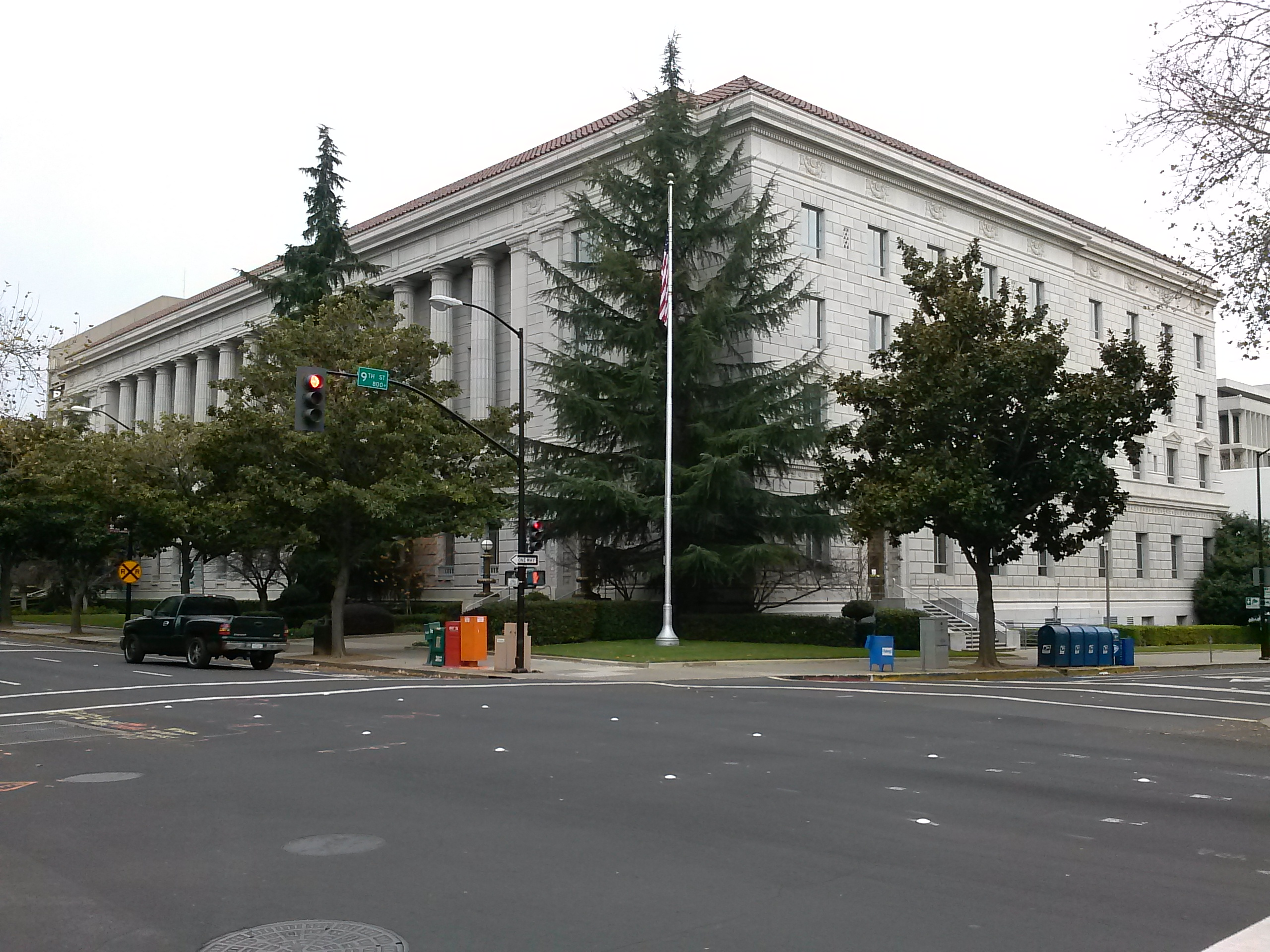 The federal building and former post office on I Street between 8th and 9th Streets, viewed from 9th and I Streets